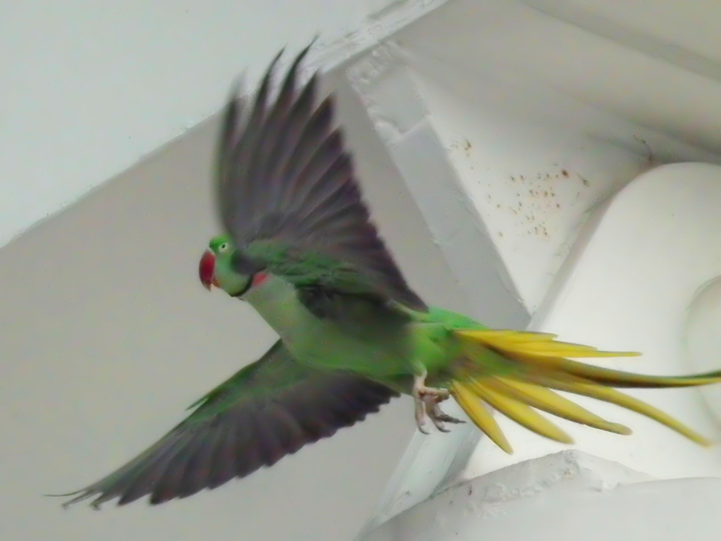 An Alexandrine Parakeet in Yau Tsim Mong, Kowloon, Hong Kong.